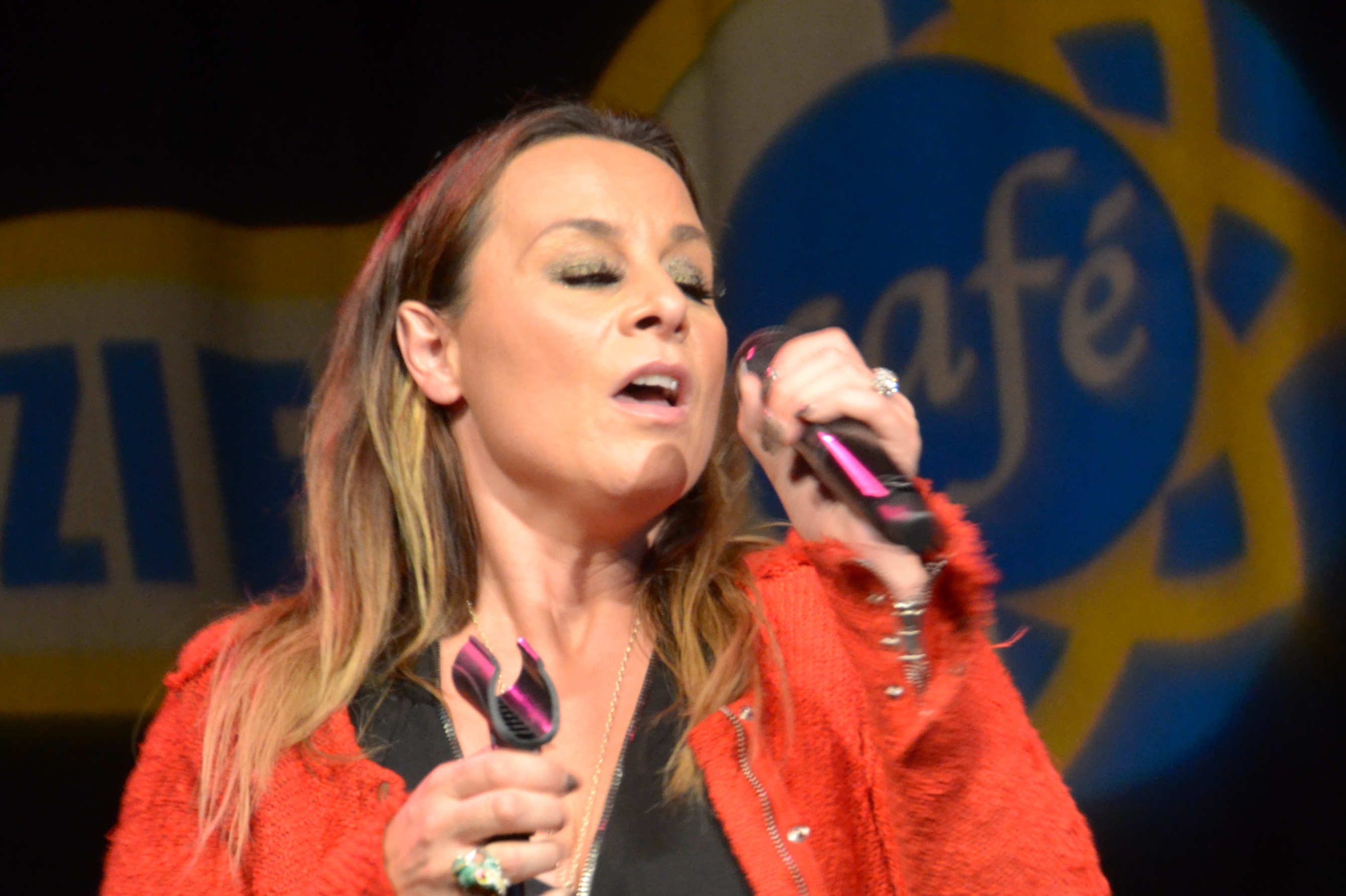 Singer Trijntje Oosterhuis , performing in the live radio broadcast "Tros Muziekcafé", from "De Vorstin", Hilversum, The Netherlands.